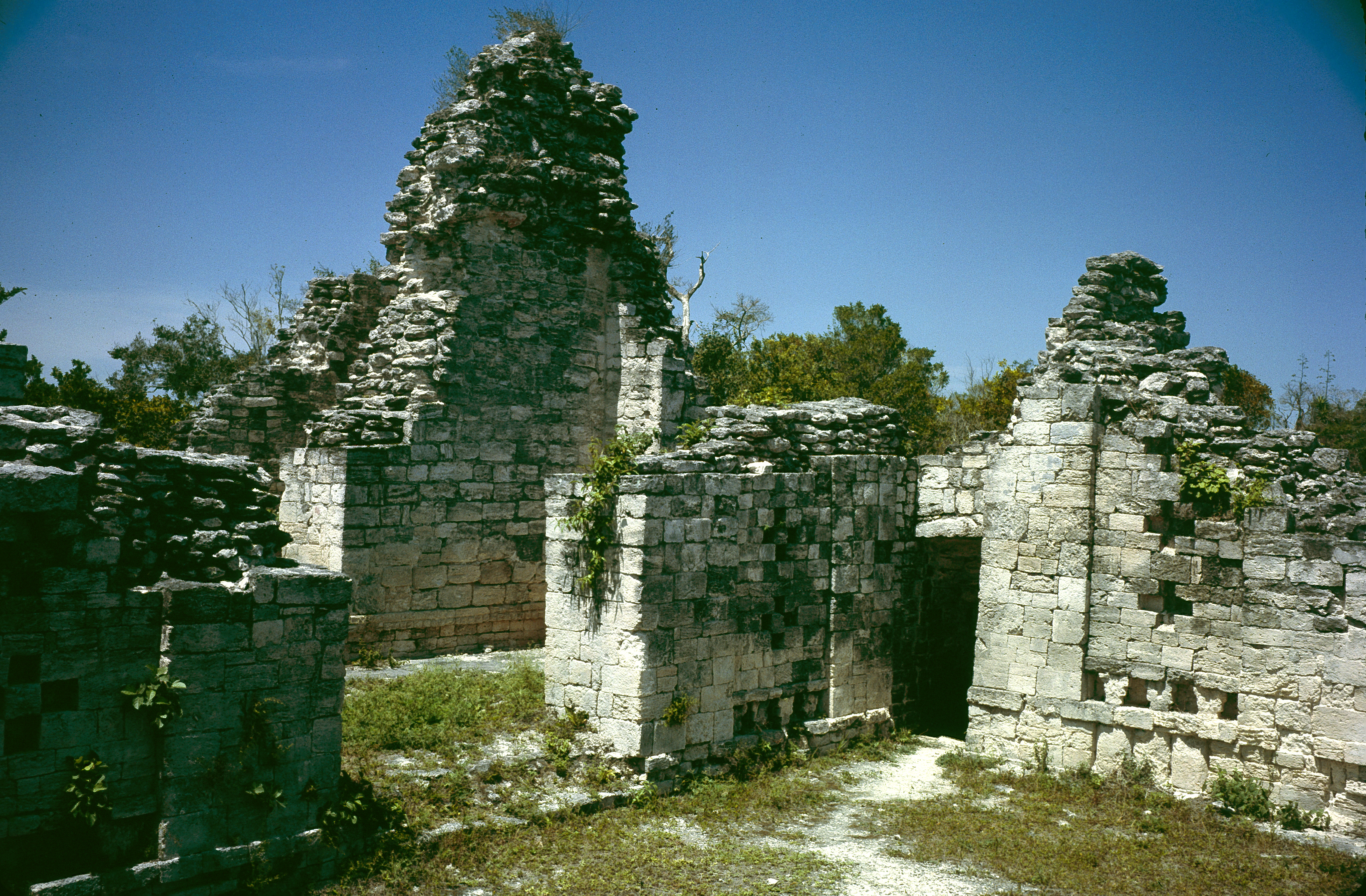 Becan, Campeche, Mexico: Building IV, court at the uppermost level